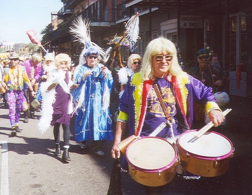 Drummer, Decatur Street, New Orleans Mardi Gras 2002 Photo by Infrogmation